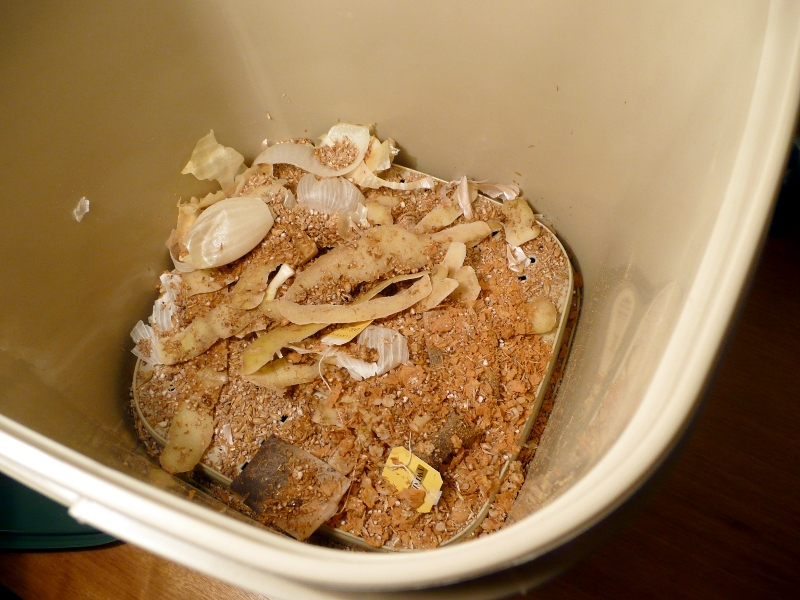 Inside of a Bokashi composting bin. Food scraps are layered with the Bokashi bran which helps the food scraps ferment inside the air-tight bin.